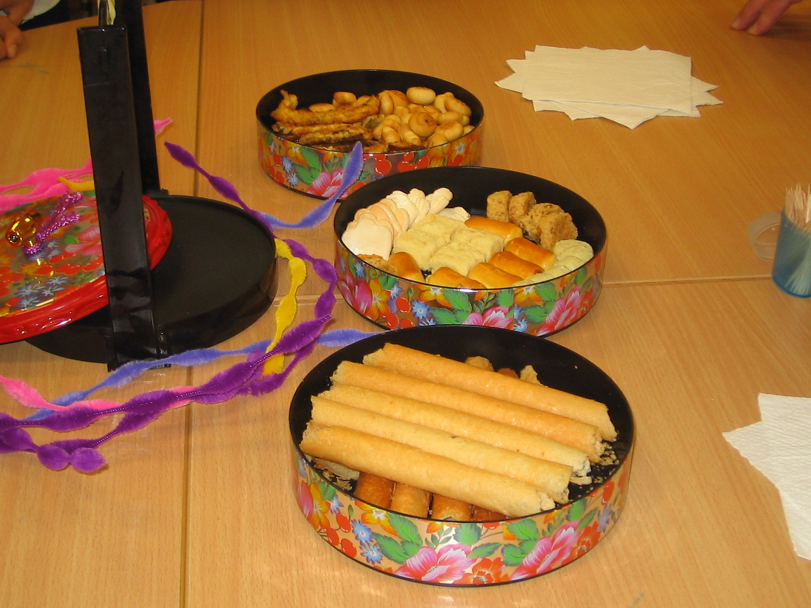 Chinese New Year cookies.